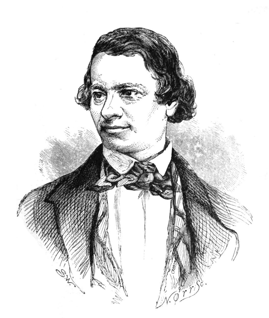 Portrait of Dan Marble, American comedic actor